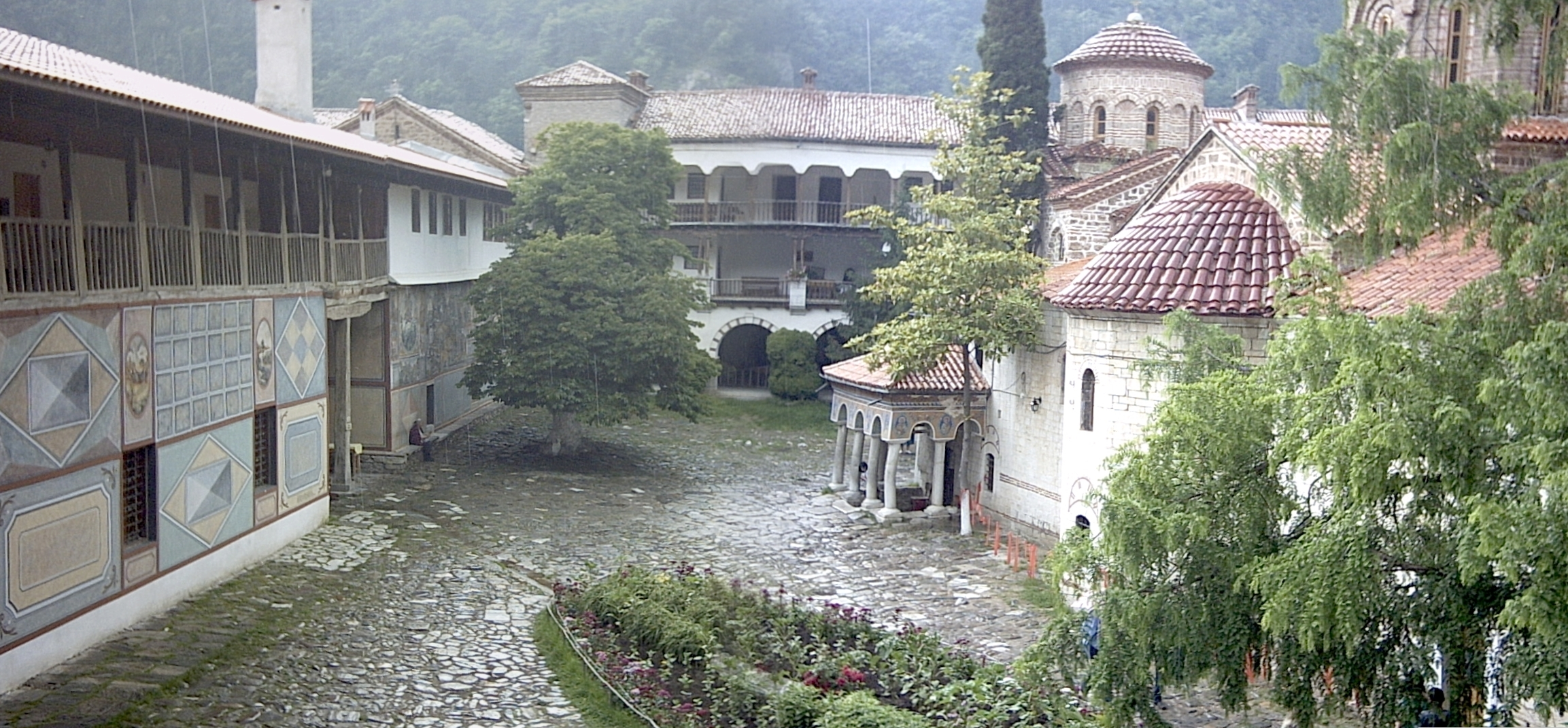 Panorama - Bachkovo Monastery, Bulgaria